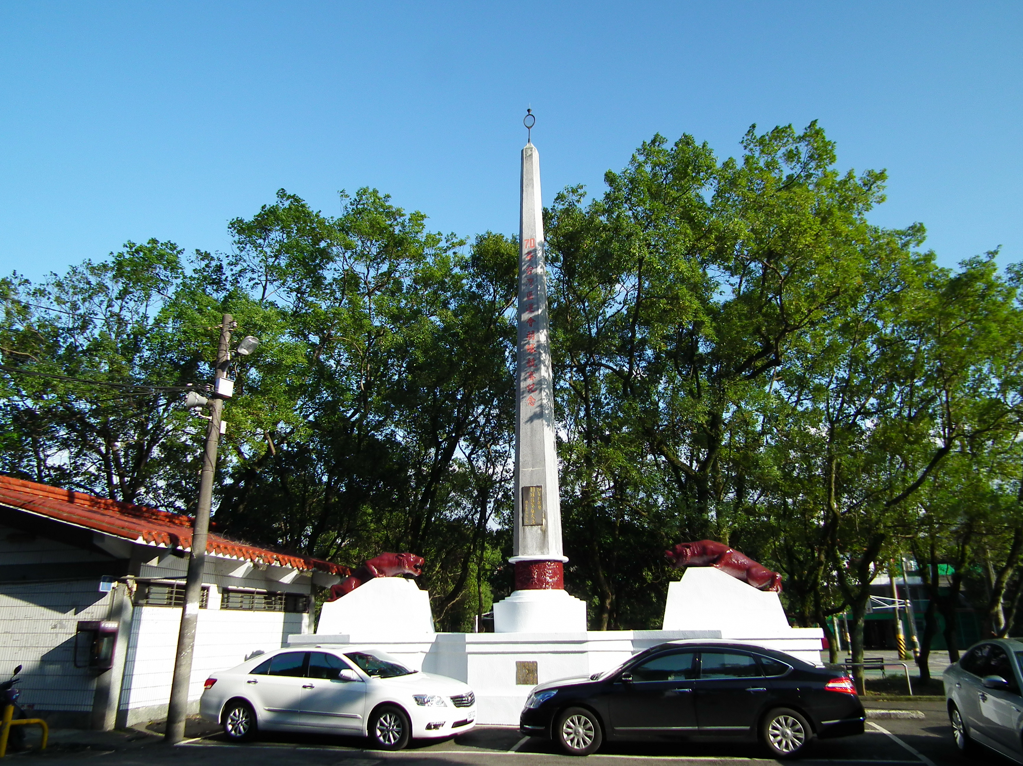 Monument of Badminton Competition of 1981 Taiwan Area Games.中文（台灣）: 桃園市大溪區民國七十年（1981）台灣區運會羽球賽紀念。